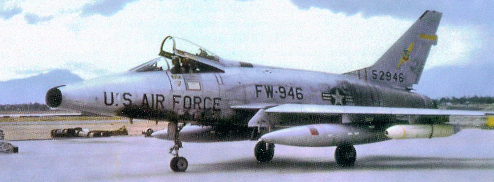 615ath TFS North American F-100D-45-NH Super Sabre 55-2946, Da Nang Air Base, May 1965